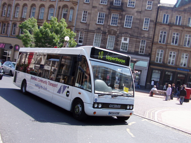 Sheffield Community Transport bus 23 (reg. MX54 KXN), a 2004 Optare Solo M850 midibus, on route 10.